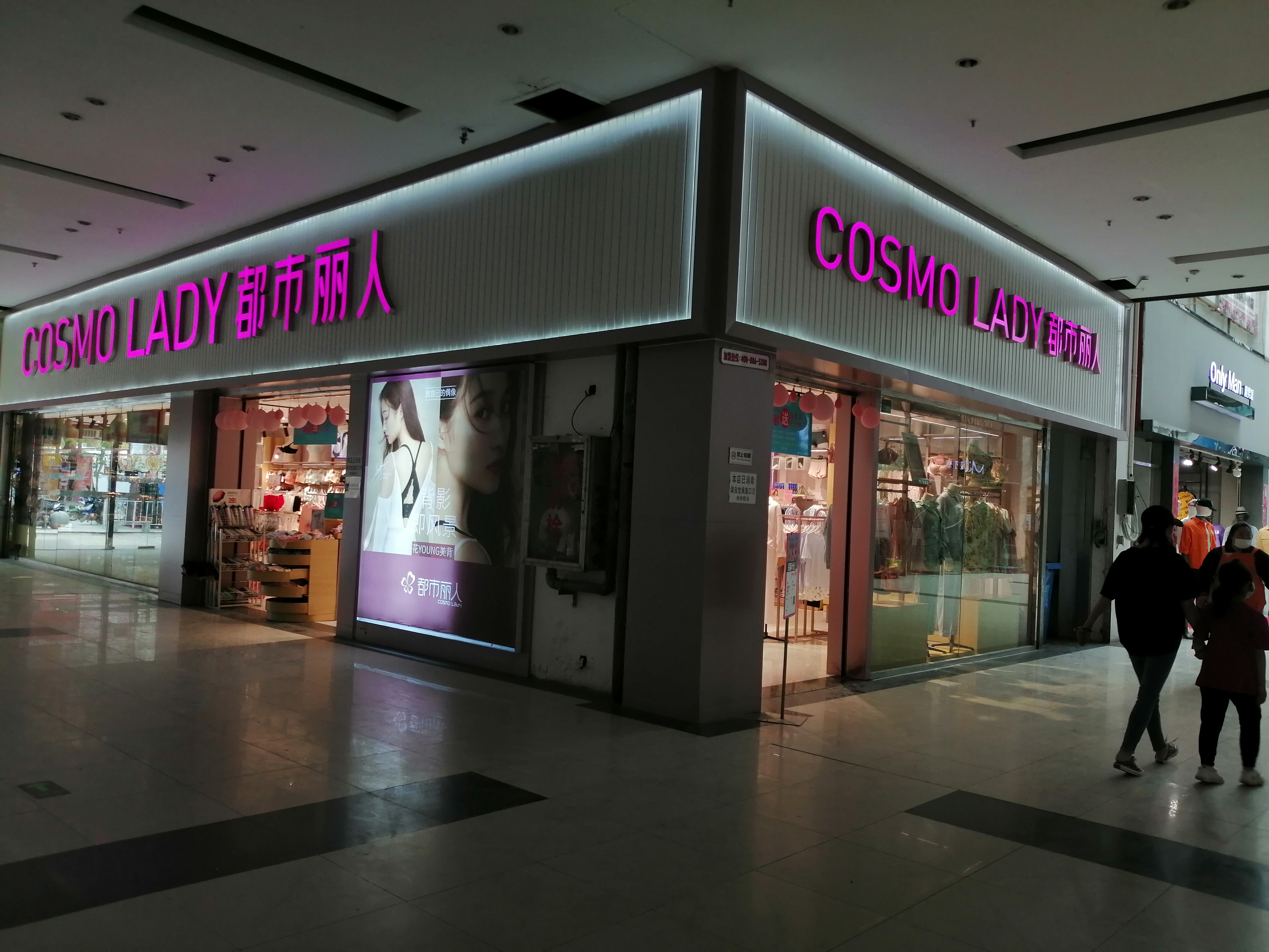 Chinese underwear brand, which the brand ambassador is Guan Xiaotong. We hope this store will not close...